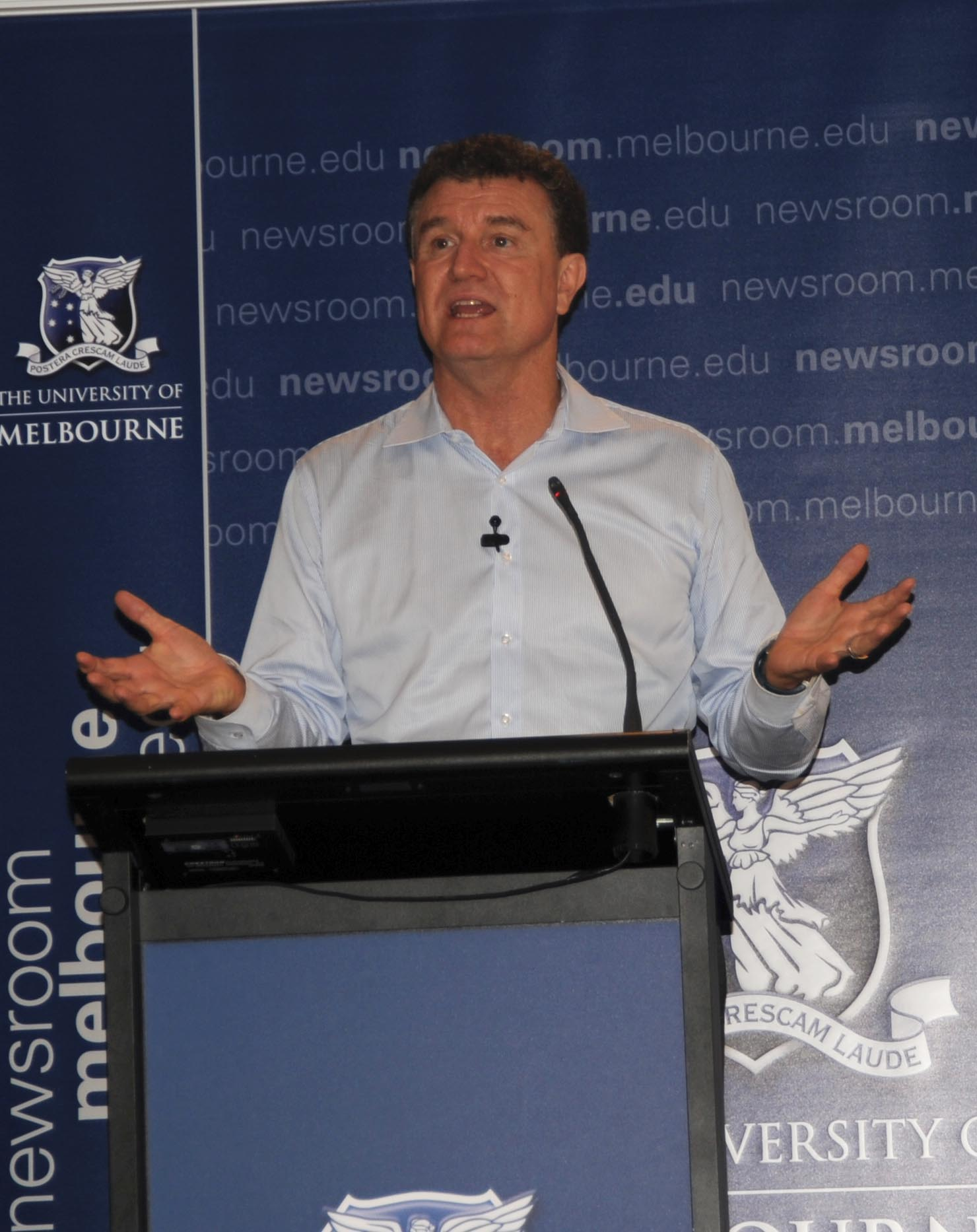 Don Henry speaking at "The Future of Carbon Trading in Australia" public lecture at the University of Melbourne